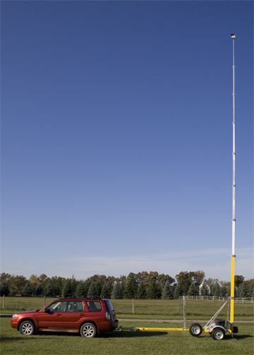 Sample Mast Photography Rig